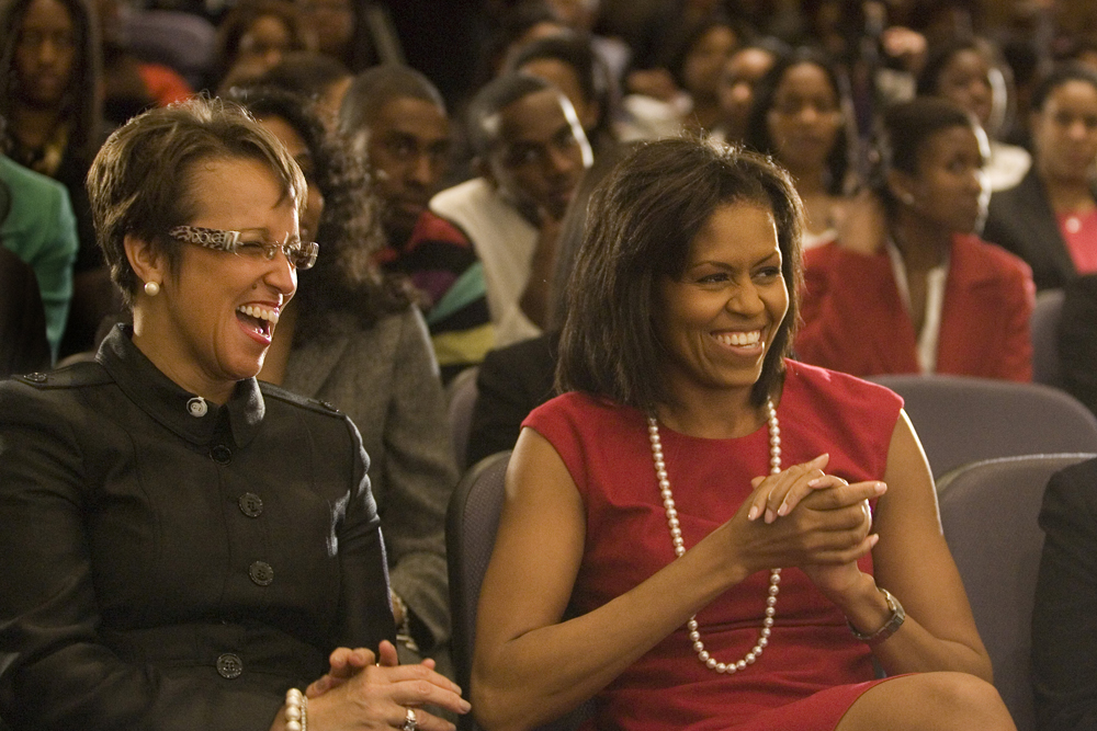 First Lady Michelle Obama at Howard University.